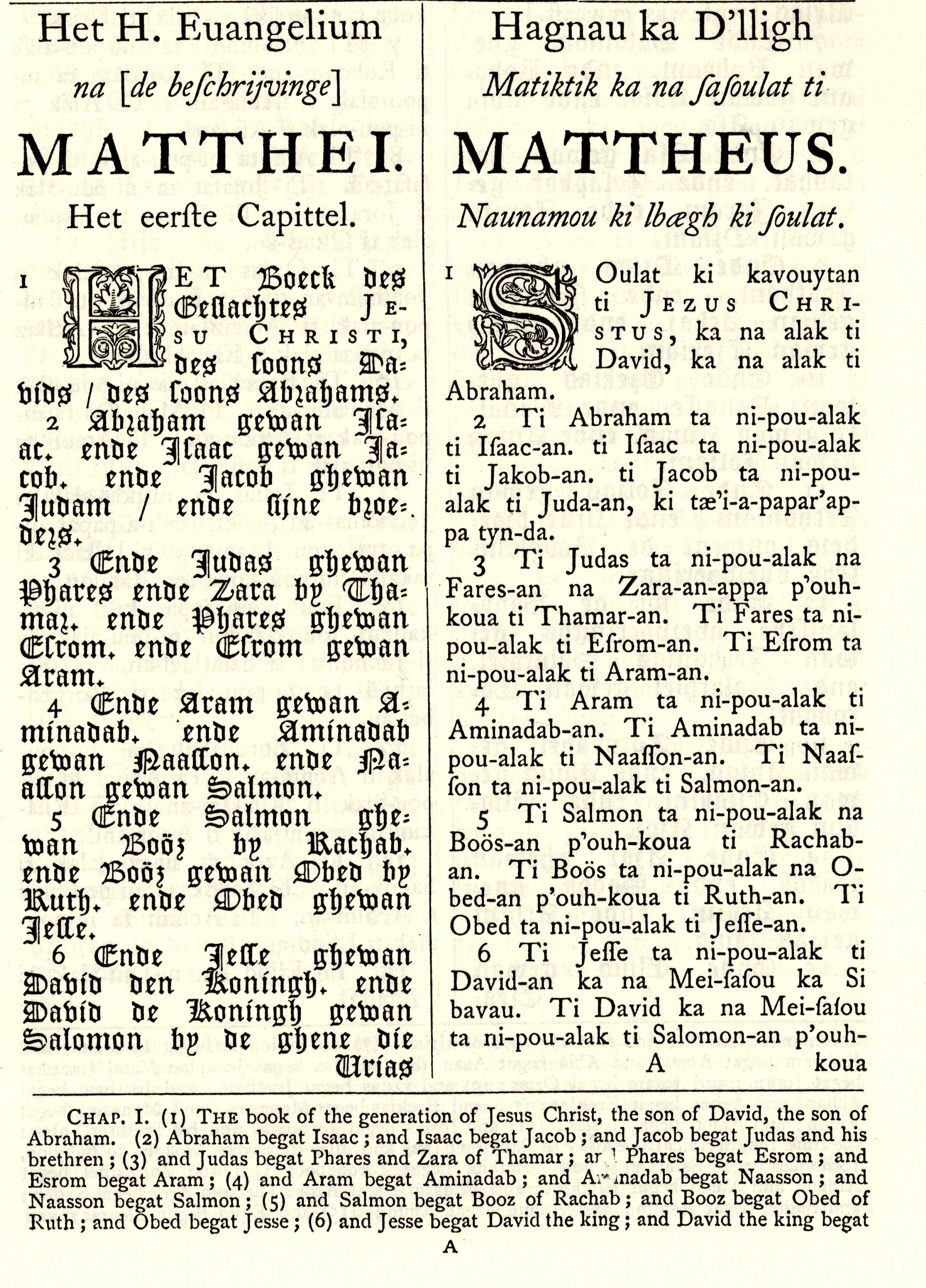 The opening paragraphs of the Gospel of Matthew in the Sinkang Formosan language. This translation dates from the first half of the 17th century. Original Dutch and Sinckan is from 1661 by Daniel Gravius; English in small type was added in 1888 by Scottish missionary William Campbell. [1] The lefthand-side is Dutch. The orthography on the right is a predecessor of the Xingang Writing (新港文書), a kind of land contract written by plain aborigines of the Sinkang Tribe, Formosa, between later half of 17 century and first half of 19 century. The bottom is the corresponding English.